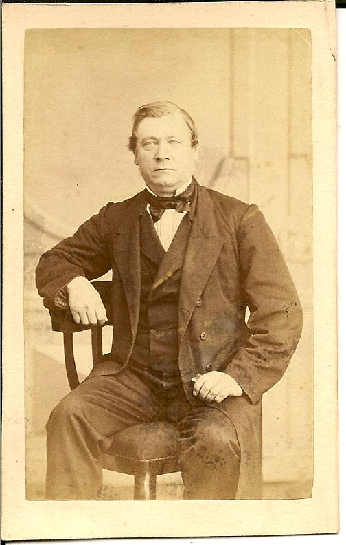 Swedish politician from late nineteenth century